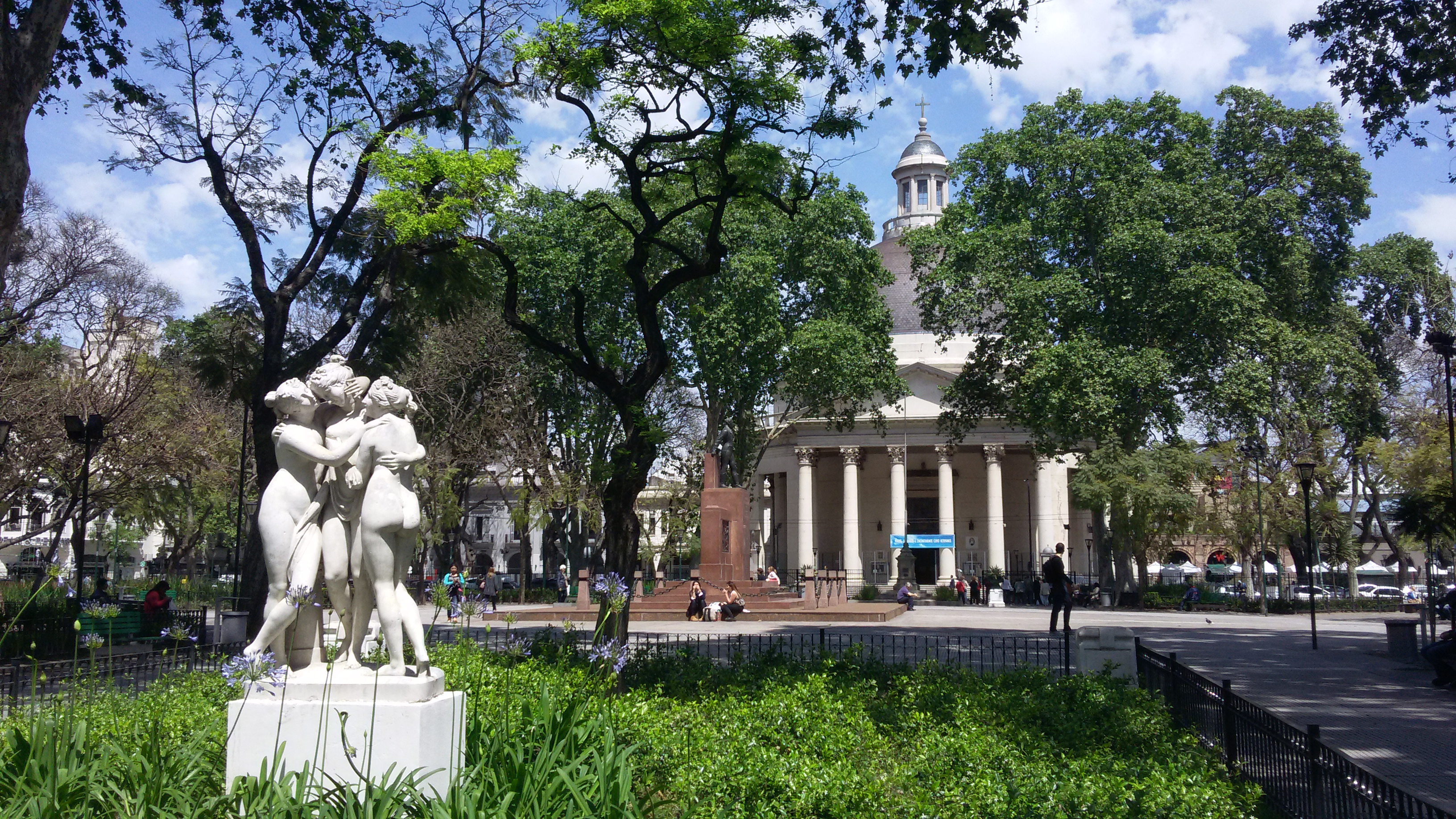 Belgrano Square in Buenos Aires